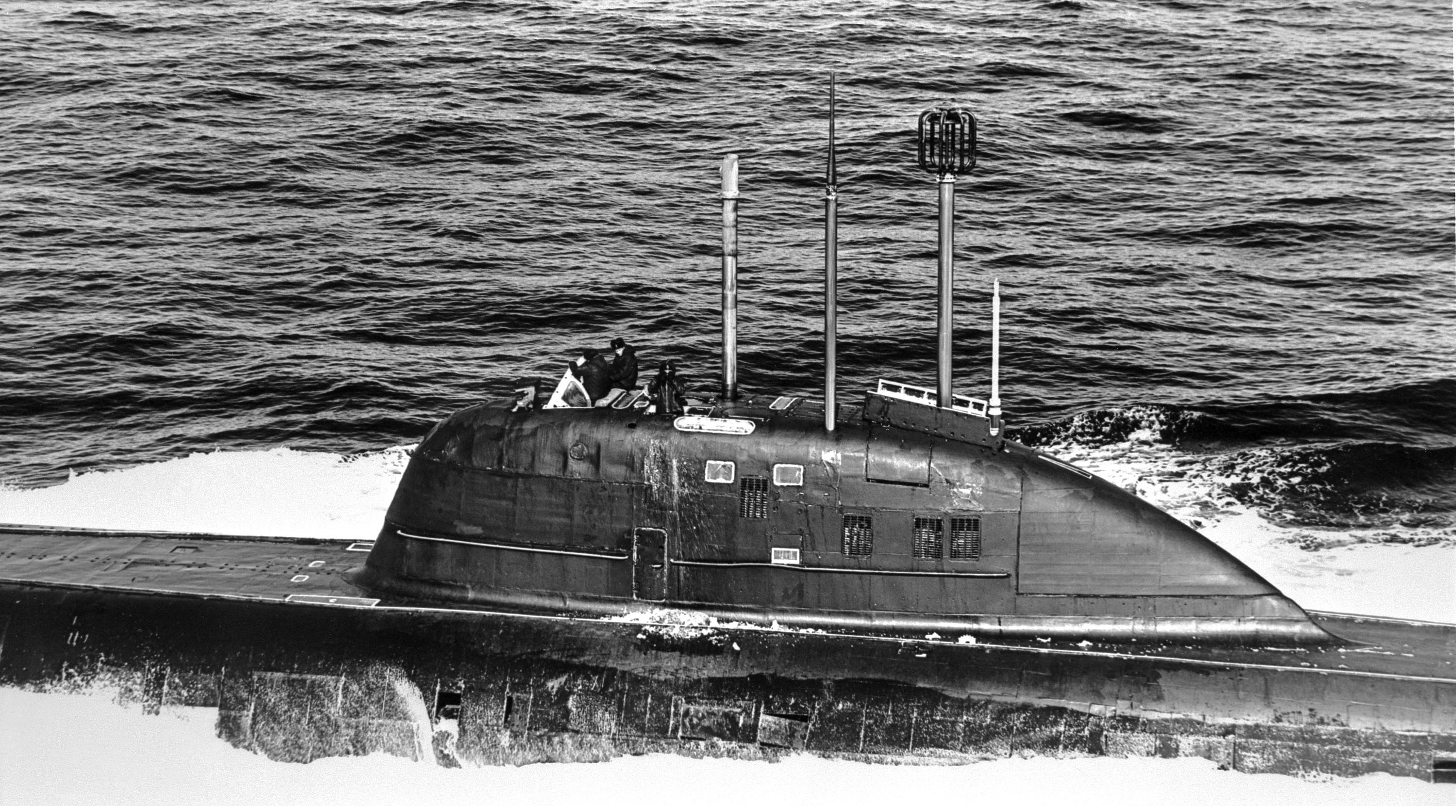 Summary Source: DoDMedia Released to Public ID: DN-SN-86-03136 Service Depicted: Other Service Date Shot: 2/7/1986 port view of the sail of a Soviet Victor-II class nuclear-powered attack submarine underway.